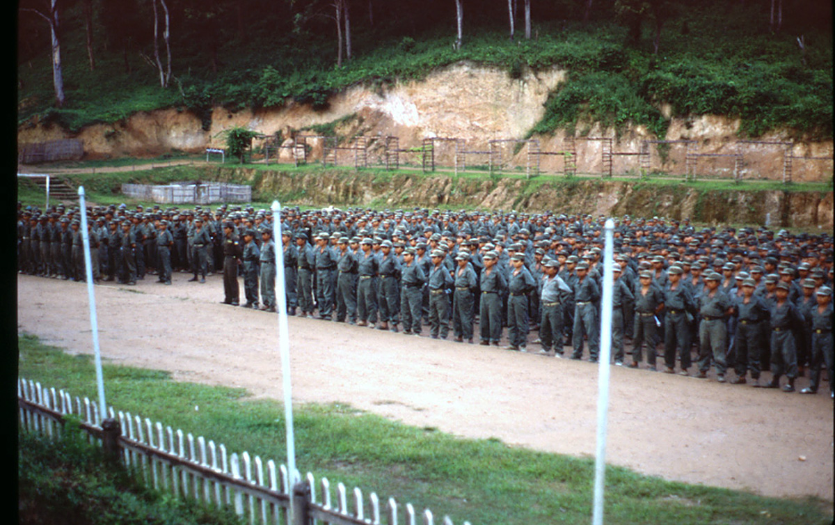 Muang Tai Army (MTA) recruits, Ner Mone, Shan State, 1990.